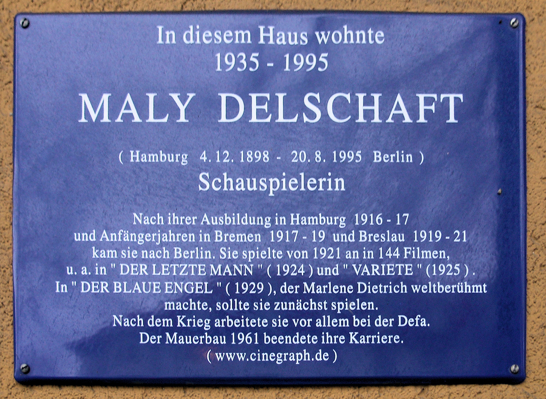 Memorial plaque, Maly Delschaft, Kaiserdamm 89, Berlin-Westend, Germany